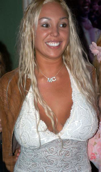 Mary Carey, taken at the Stripdown Magazine party at the Conga Room